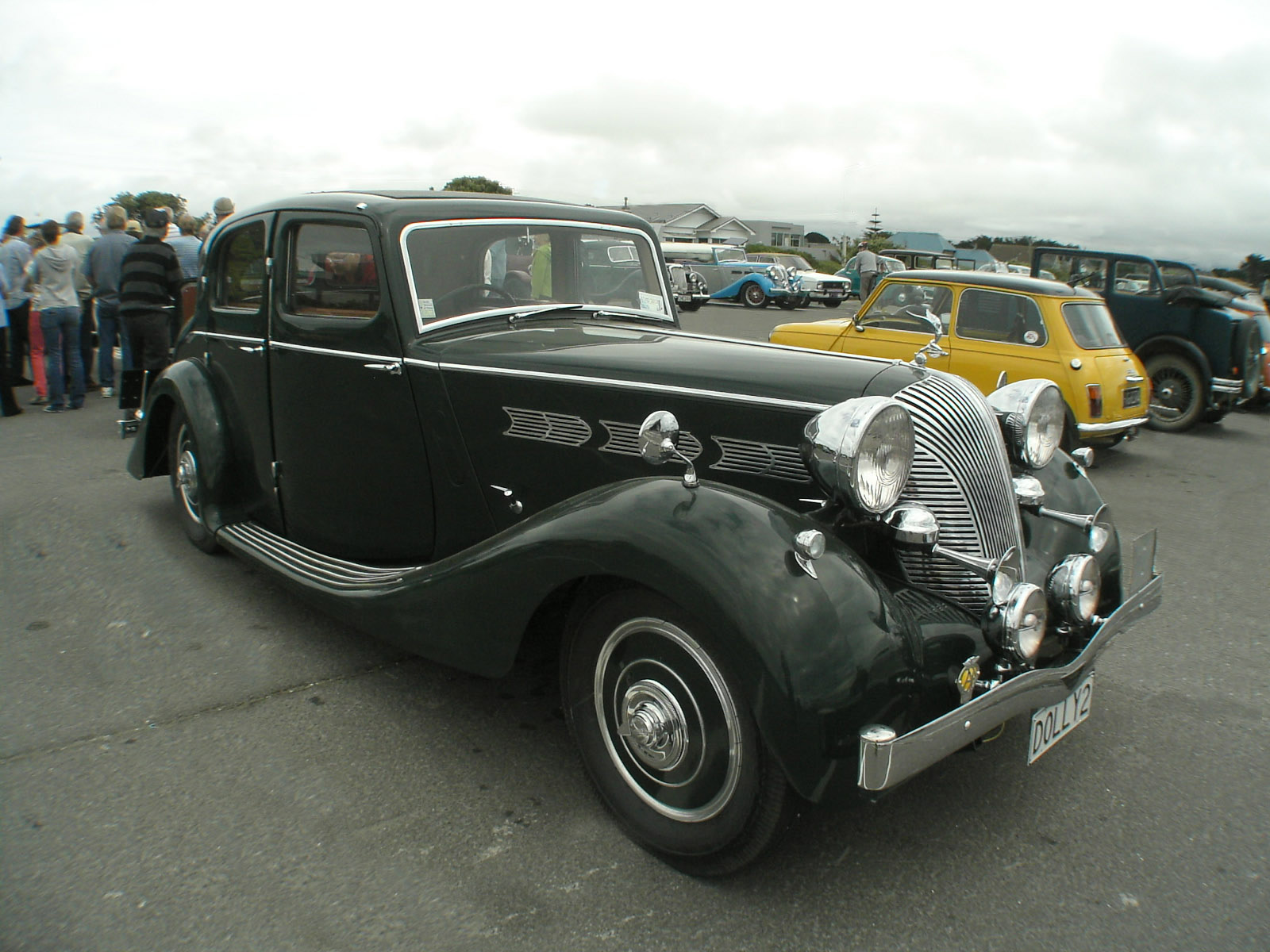 1938 2-litre Triumph Dolomite sports saloon